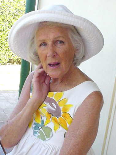 South African Impressionist painter Ann Nosworthy.